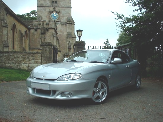 Image showing the Hyundai Coupe "F2 Evolution" limited edition model with the characteristic front bumper/spoiler and 5-spoke Evo alloys.